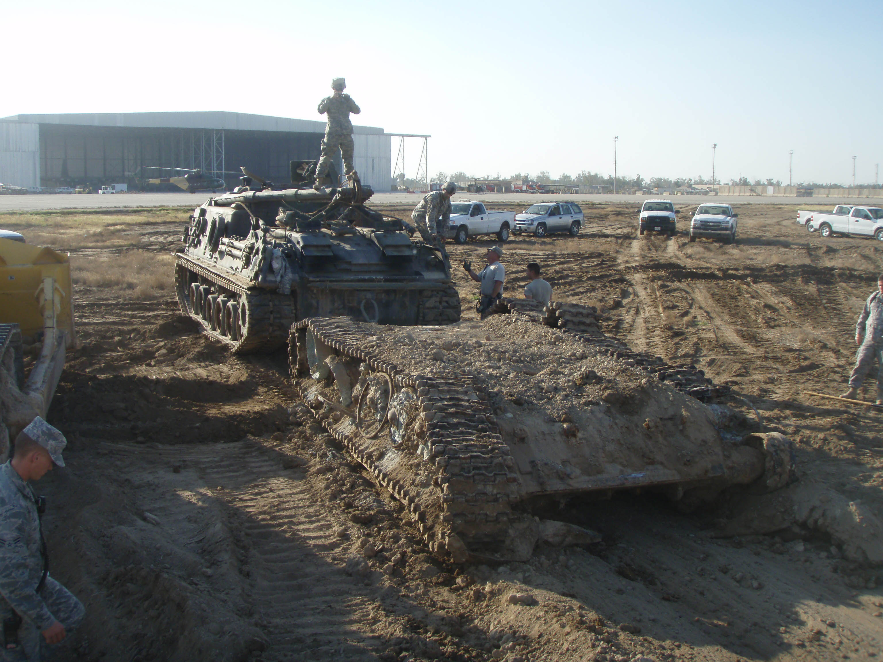 Soldiers from the 503rd Maintenance Company, 398th Combat Sustainment Support Battalion, 10th Sustainment Brigade, assist Airmen on Sather Airfield with the recovery of a T-72 Soviet-designed battle tank. 503rd Maint. Co. is currently deployed in support of Multi-National Division – Baghdad.